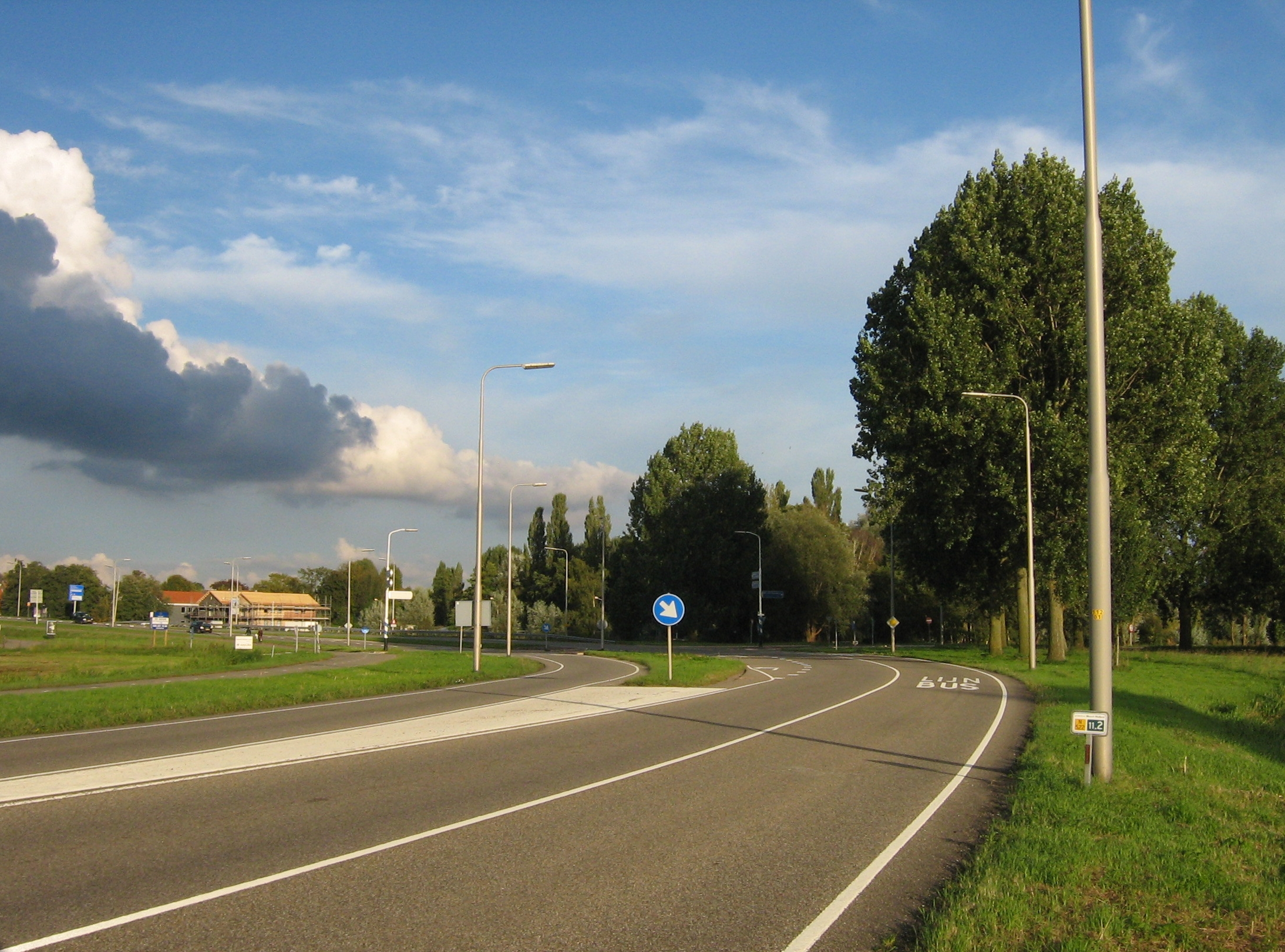 The N522 road linking Amstelveen (behind photographer) and Ouderkerk aan de Amstel, the Netherlands, a few hundred meters west of the River Amstel.